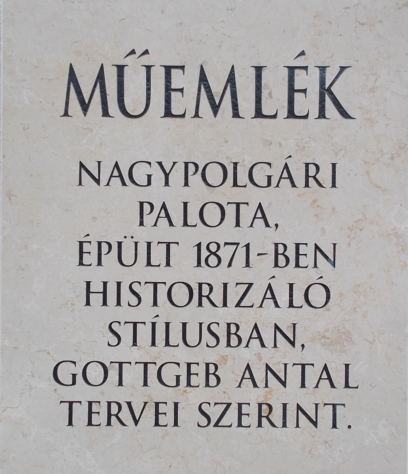 Dwelling building planned by Antal Gottgeb, built in 1871. The original, wooden, semi-circular entrance gate is framed by Doric pilasters. Double door balcony. Rustic framed windows on ground. floor Inside a tiled globe shape vaulted doorway lead to the red marble three-armed staircase. - 4 Horánszky street, Palace neighborhood, District VIII, Budapest.